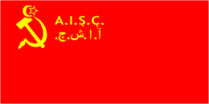 Flag of Azerbaijan since 1925 till end of 1920s